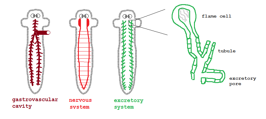 Gastrovascular, Nervous, and Excretory Structures of Planaria